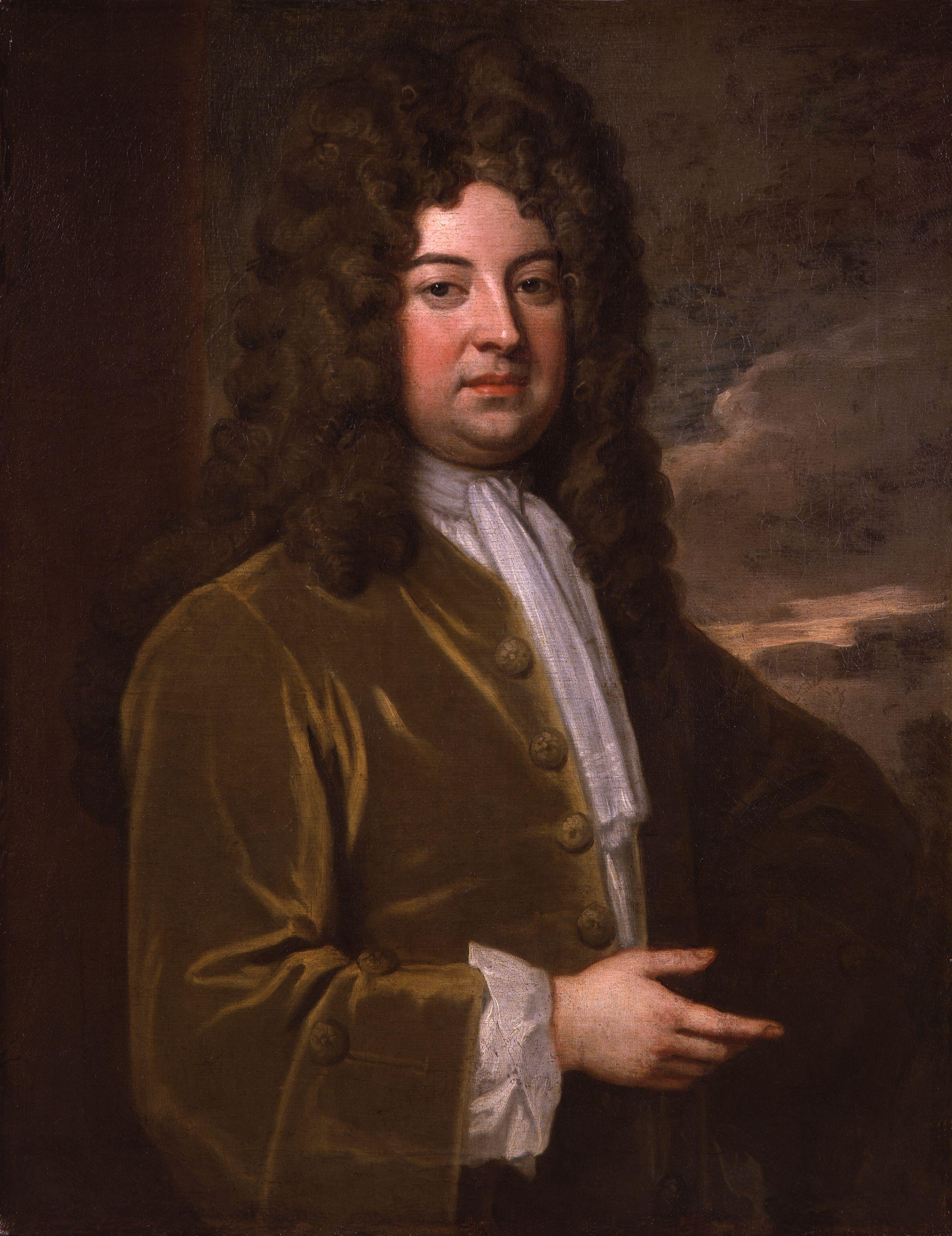 Abraham Stanyan (c. 1669–1732) was an English politician and diplomat., painting by Sir Godfrey Kneller, Bt (died 1723), given to the National Portrait Gallery, London in 1945. All images in this batch have been confirmed as author died before 1939 according to the official death date listed by the NPG.